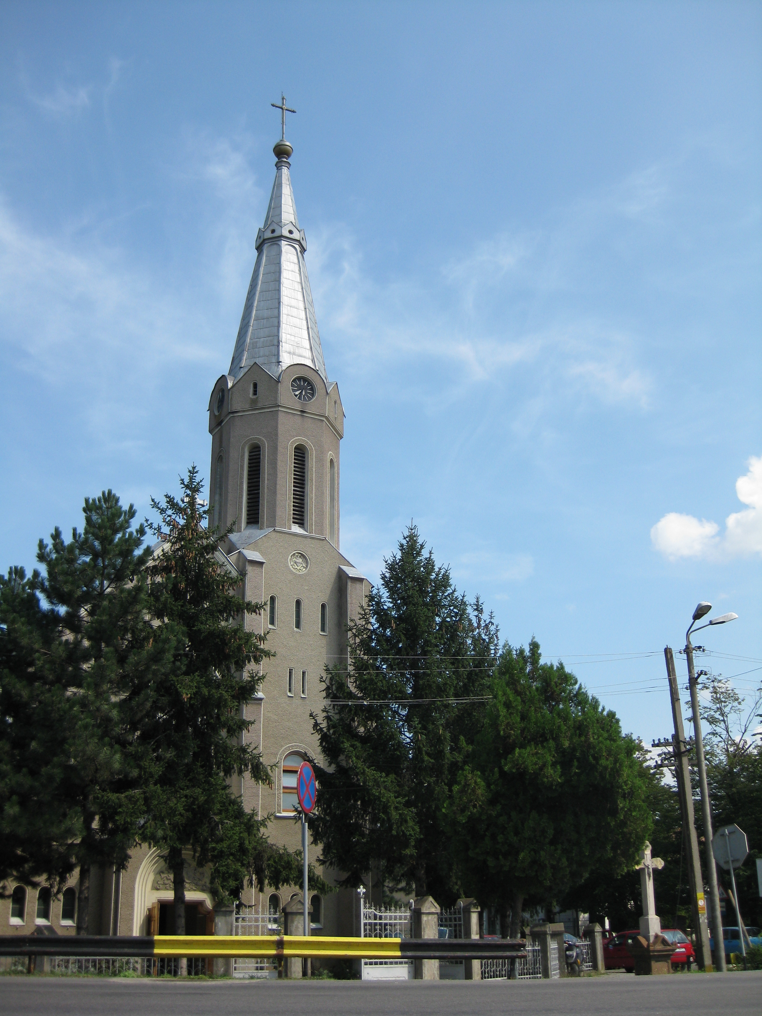 Alesd - Roman-Catholic ChurchRomână: Aleșd - Biserica Romano-Catolică